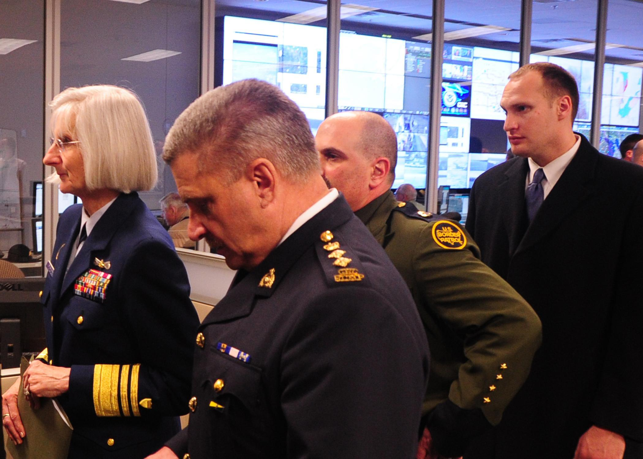 Vice Commandant Sally Brice-O'Hara, along with representatives of the Royal Canadian Mounted Police and U.S. Border Patrol, tours the new Operational Integration Center at Selfridge Air national Guard Base, Mich., March 24. The Operational Integration Center provides a collaborative work area and communications capabilities for all components of Customs and Border Protection, Coast Guard and other DHS organizations, federal law enforcement agencies, state and local law enforcement and appropriate Canadian Agencies. (U.S. Coast Guard photo by Petty Officer 3rd Class George Degener)